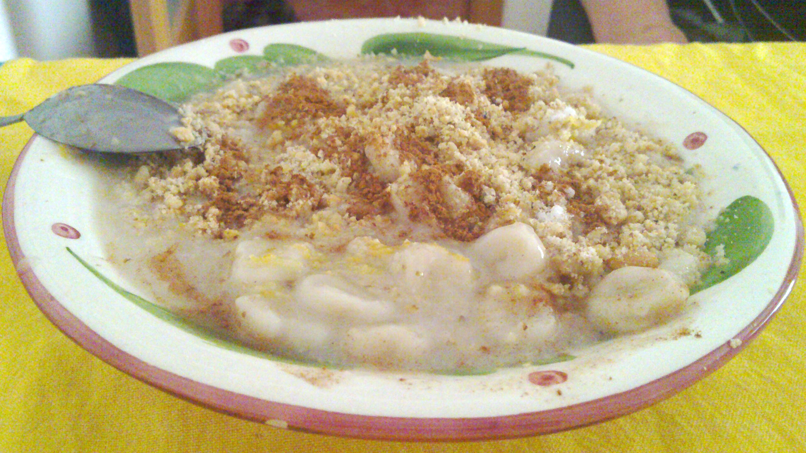 Mucenici, Romanian dessert served for Forty Martyrs of Sebaste (March 9th)